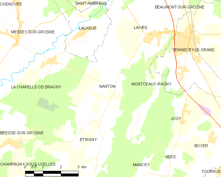 Map of French municipality